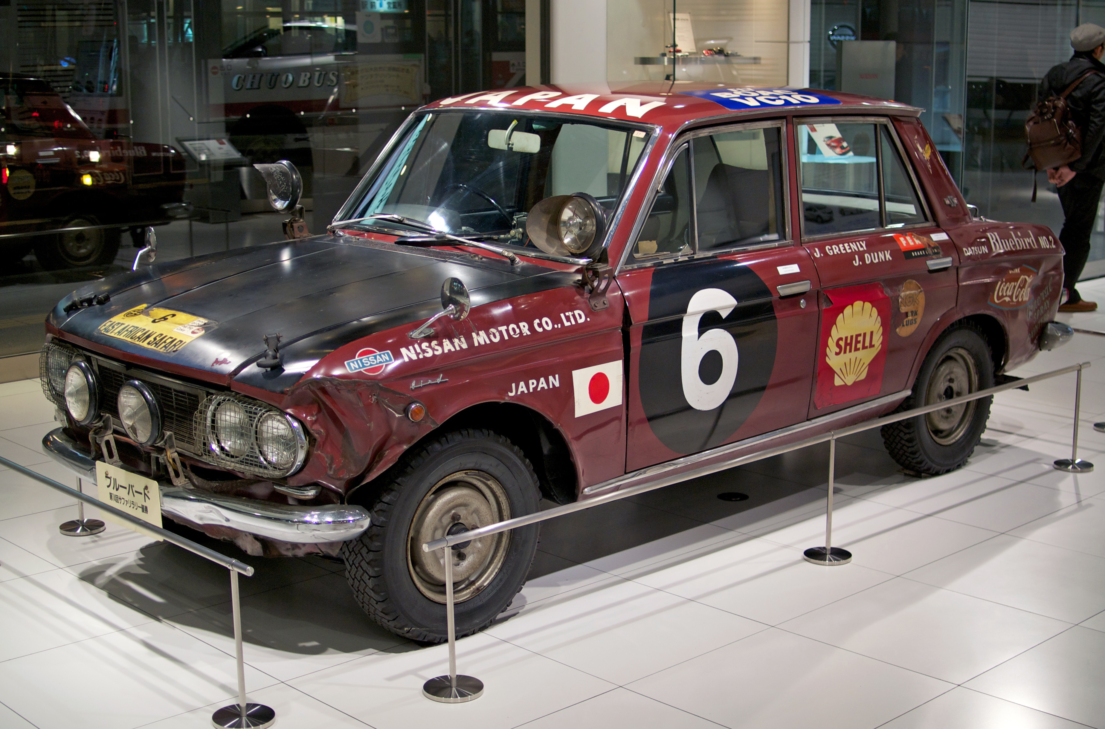 Datsun Bluebird (410) rally car from the East African Safari Rally. This was the second Bluebird entered.